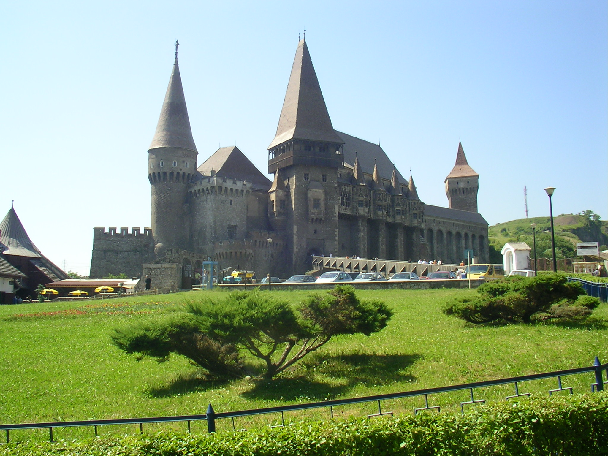 Hunyadi Castle in Hunedoara